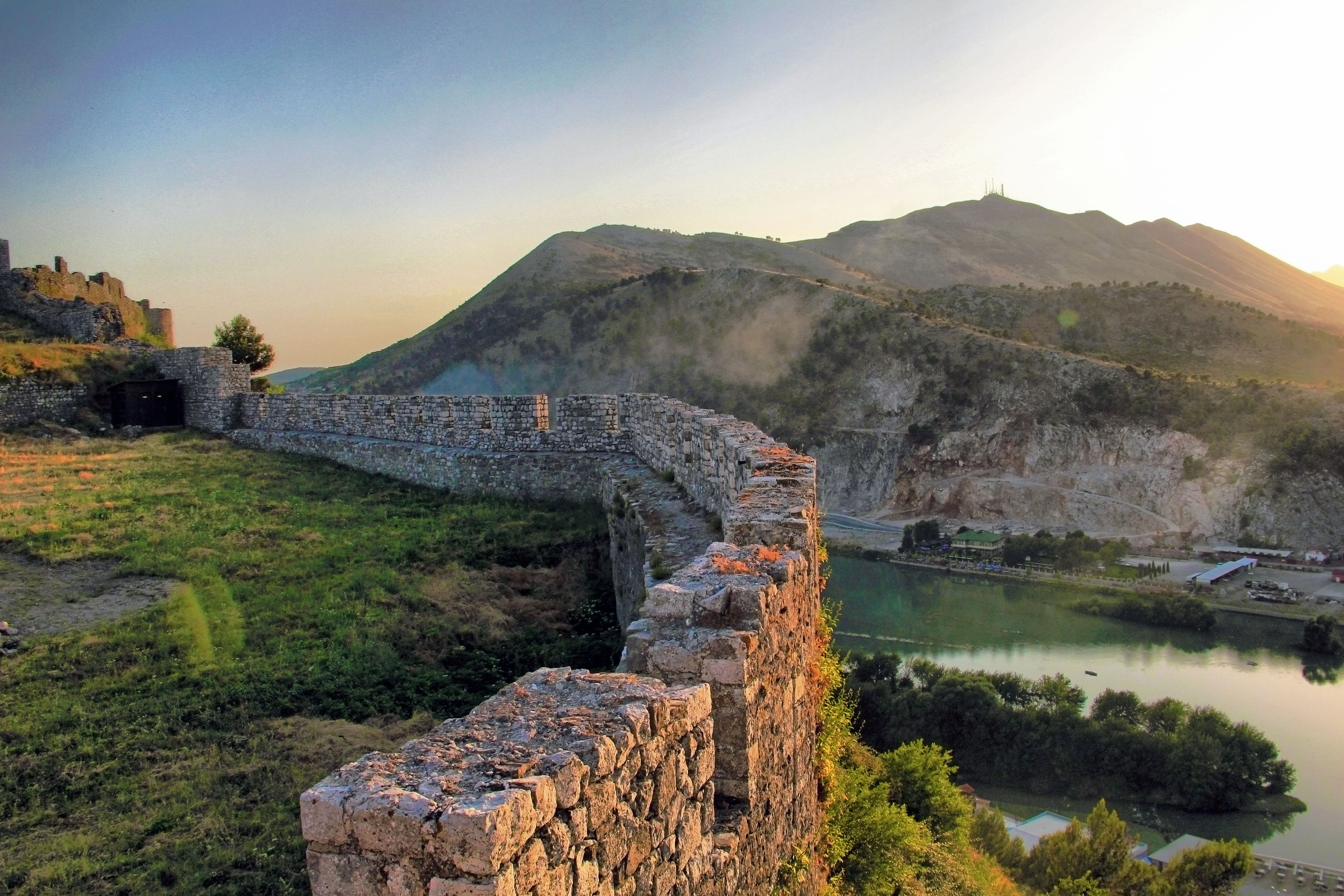 A photo taken by photographer Talha Çakır in Albenia